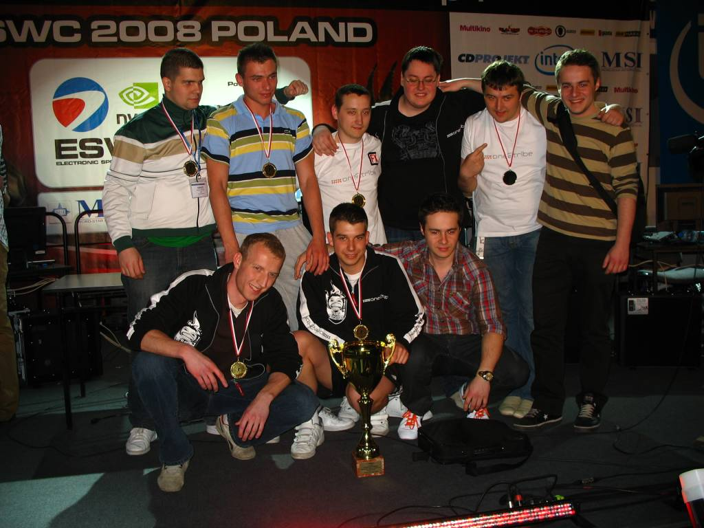 Team Frag eXecutors at ESWC 2008. Above: Mateusz "OzoN" Glowinski, Artuk "dOK" Kaleta, Artur "BEn" Ostrach, Adrian "Ziggy" Witkowski, Bogdan "izzy" Wojcik, Szymon "STING" Ozga, below: Jakub "tjb" Barczyk, Filip "pionas" Pionka, Mateusz "matr0x" Ozga